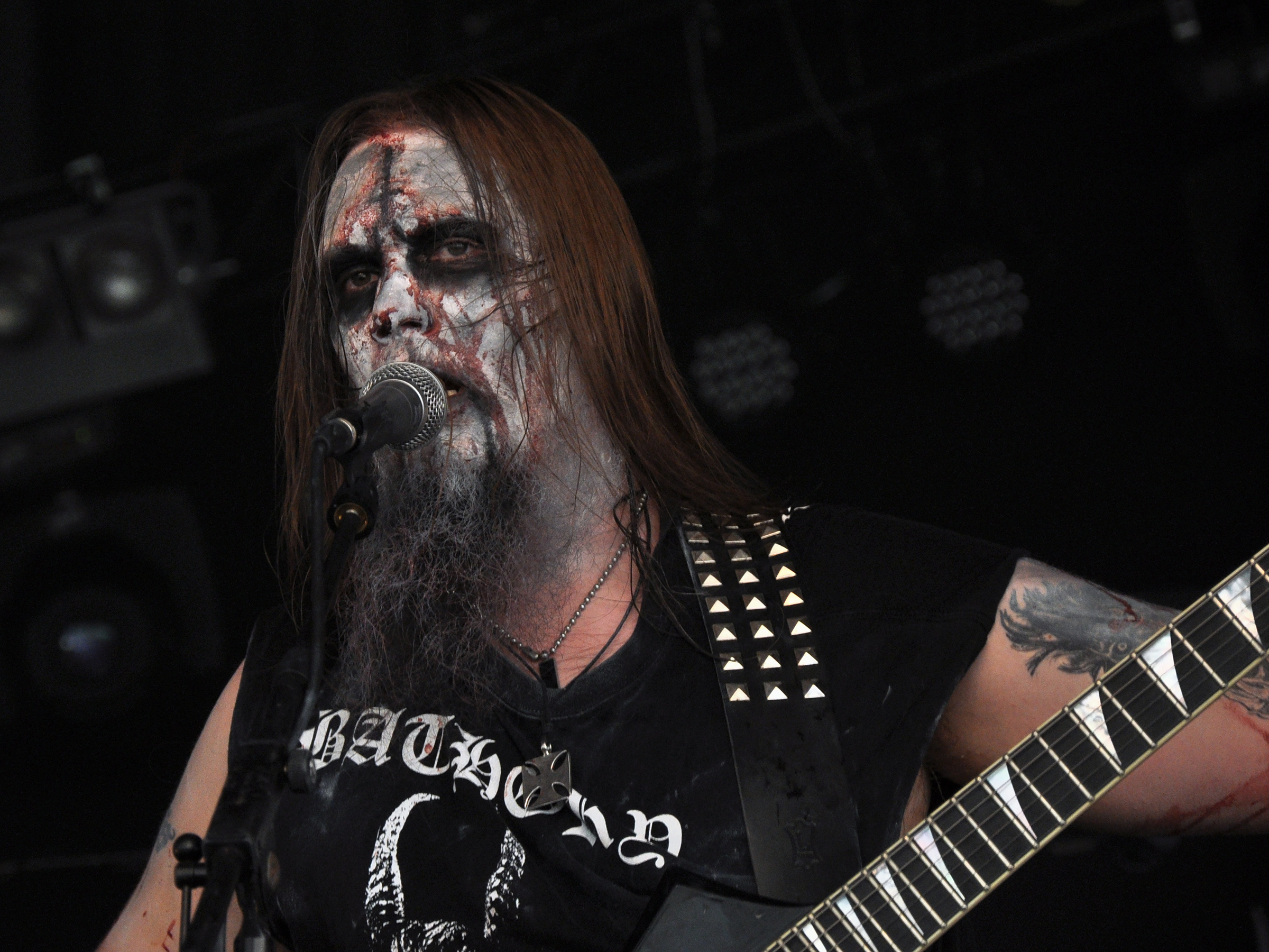 Trondr Nefas, guitarist and vocalist of Urgehal, at the Metal Mean Festival, on the 20th of August in Méan (Belgium).